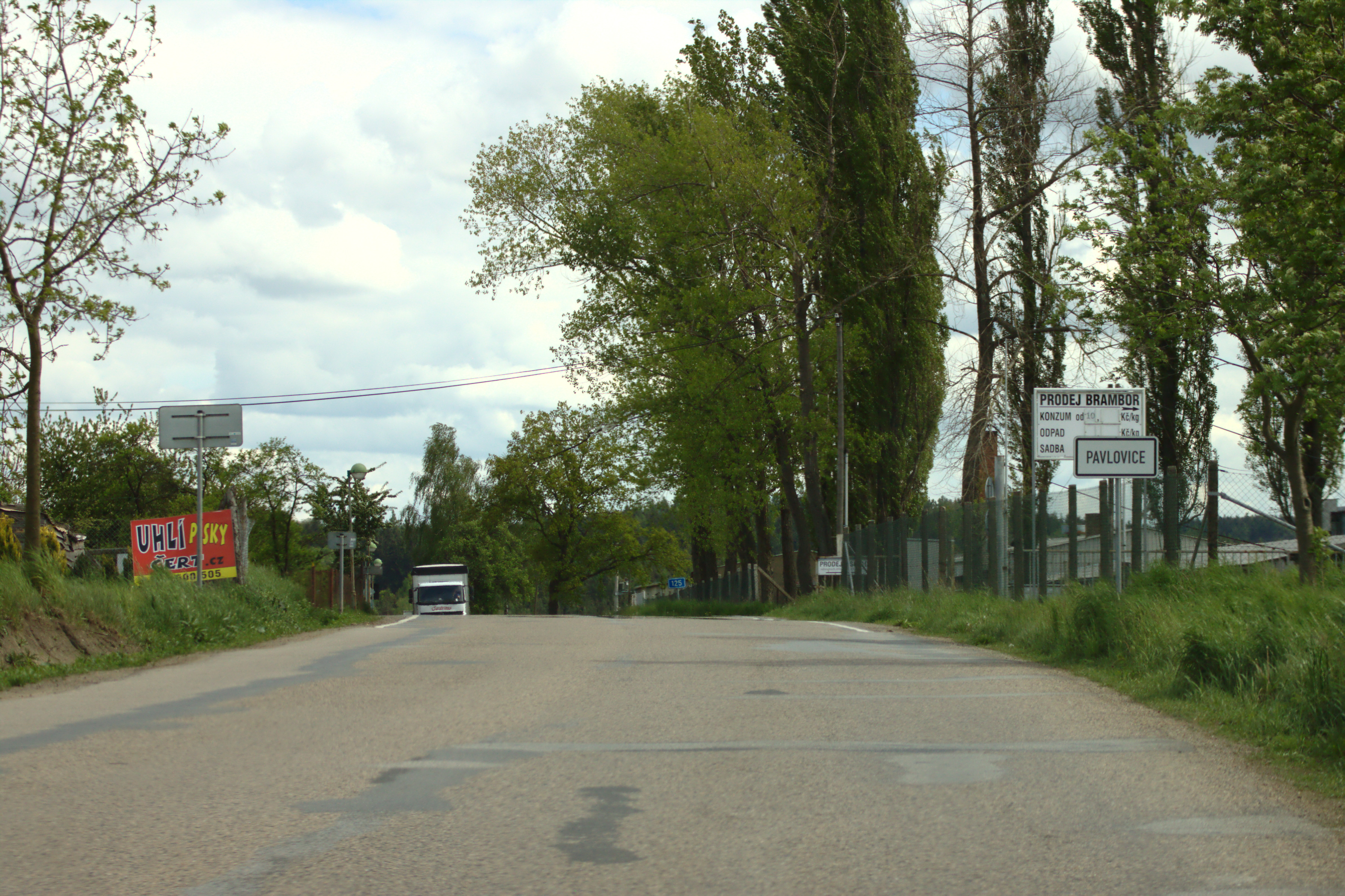 Town of Pavlovice east from Vlašim, Central Bohemia Project: Fotíme Česko